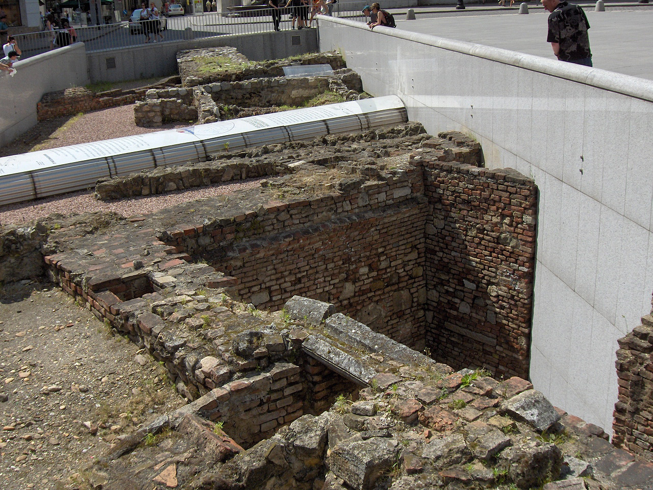 Hofburg, Vienna; excavations on the Michaelerplatz